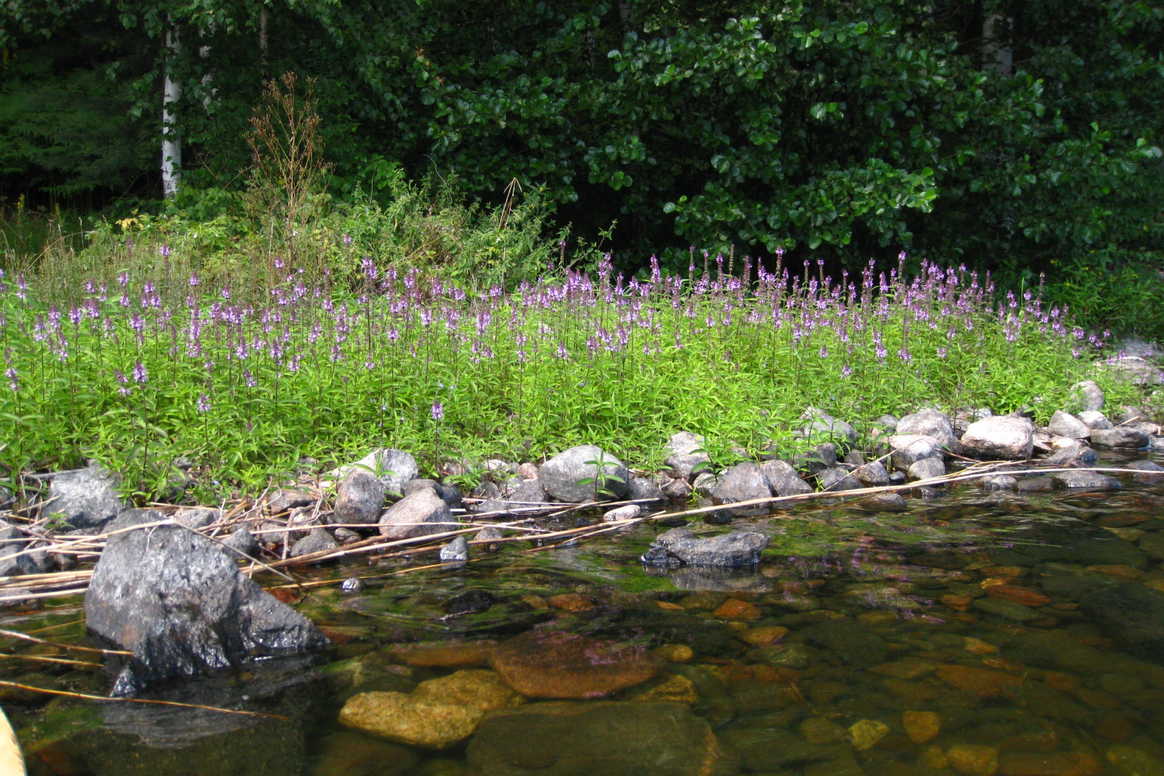 Marsh woundwort by lakeside in southwest Finland.